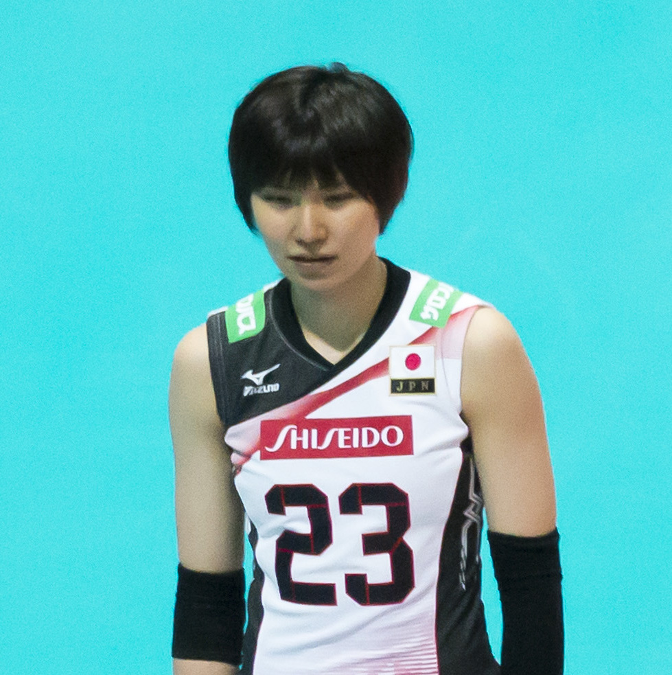 JAPAN TEAM 2. SARINA KOGA 3. NANA IWASAKA 4. RISA SHINNABE 9. HARUYO SHIMAMURA 10. KOYOMI TOMINAGA 11. YURIE NABEYA 12. MIYA SATO 13. MAI OKUMURA 14. AYAKA MATSUMOTO 16. RISA ISHII 18. MAMI UCHISETO 20. MAKO KOBATA 21. KOTOE INOUE 23. RIKA NOMOTO 24. MIZUKI TANAKA